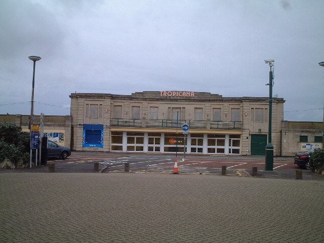 The Tropicana